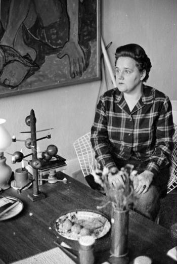 Photograph of the Finnish writer Eeva-Liisa Manner (1921–1995).